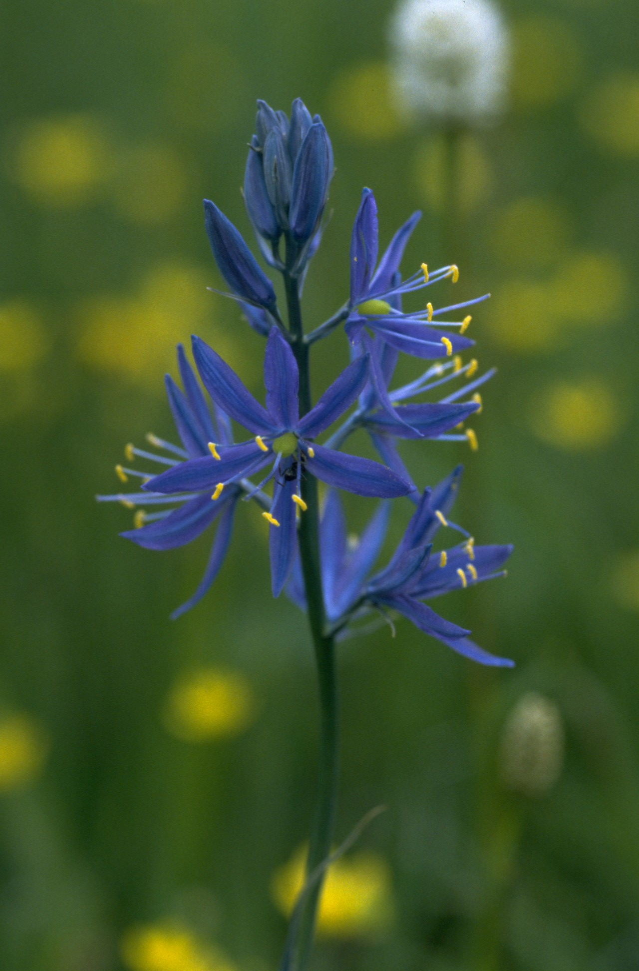 Small camas flower in the Big Summit Prairie, Ochoco National Forest, Oregon